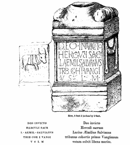 Altar to the God Hercules: Lucius Aemilius Salvianus, tribune of the First Cohort of Vangiones, Risingham (GB).